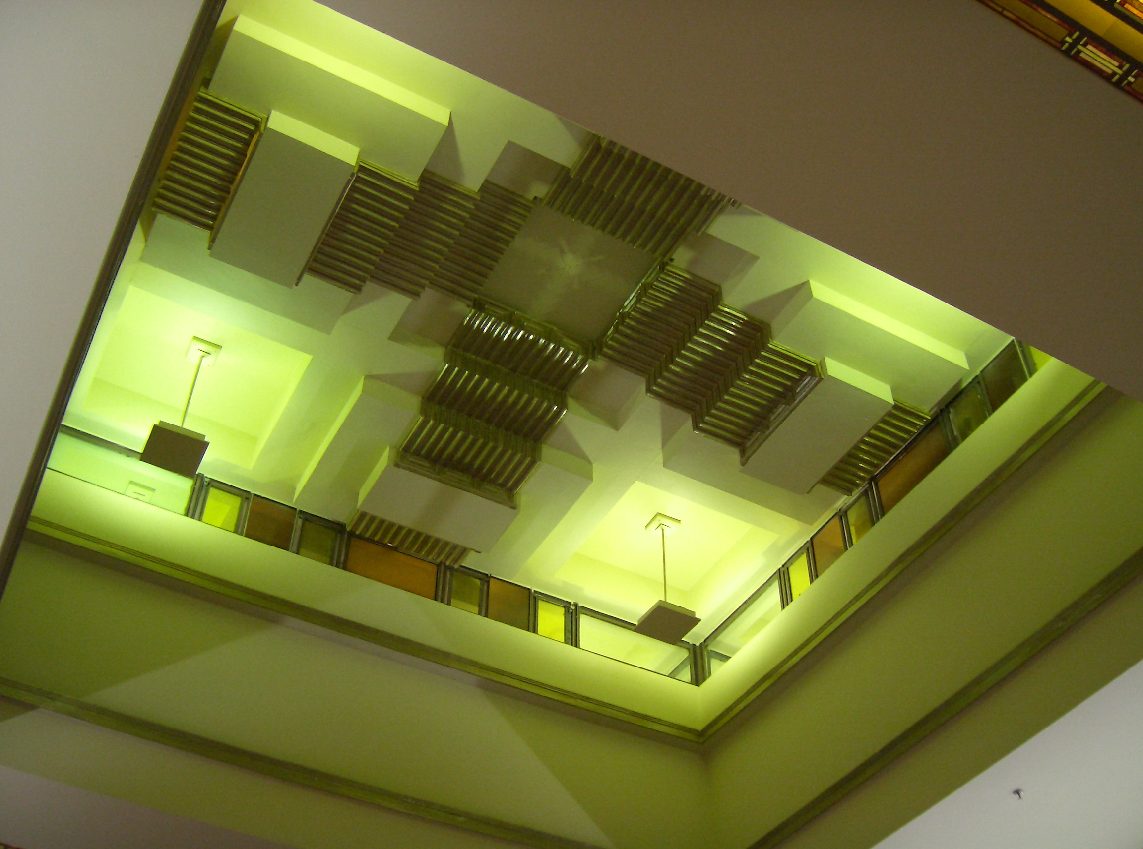 This lavish ceiling feature is in the foyer of the Capitol Theatre building on Swanston Street, Melbourne, Australia. The building was designed by architects Walter Burley Griffin and Marion Mahony Griffin and opened in 1924.